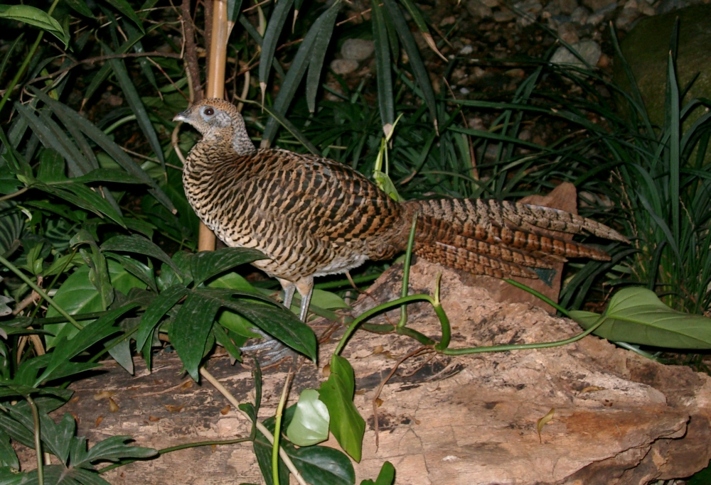 Chrysolophus amherstiae - Amherstfasan Henne - Lady Amherst Pheasant